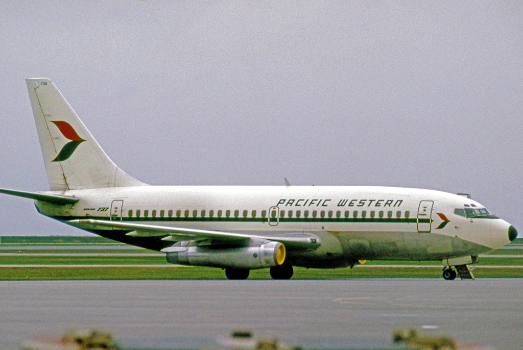 Boeing 737-275 CF-PWP of Pacific Western Airlines in operation at Vancouver International Airport in 1973